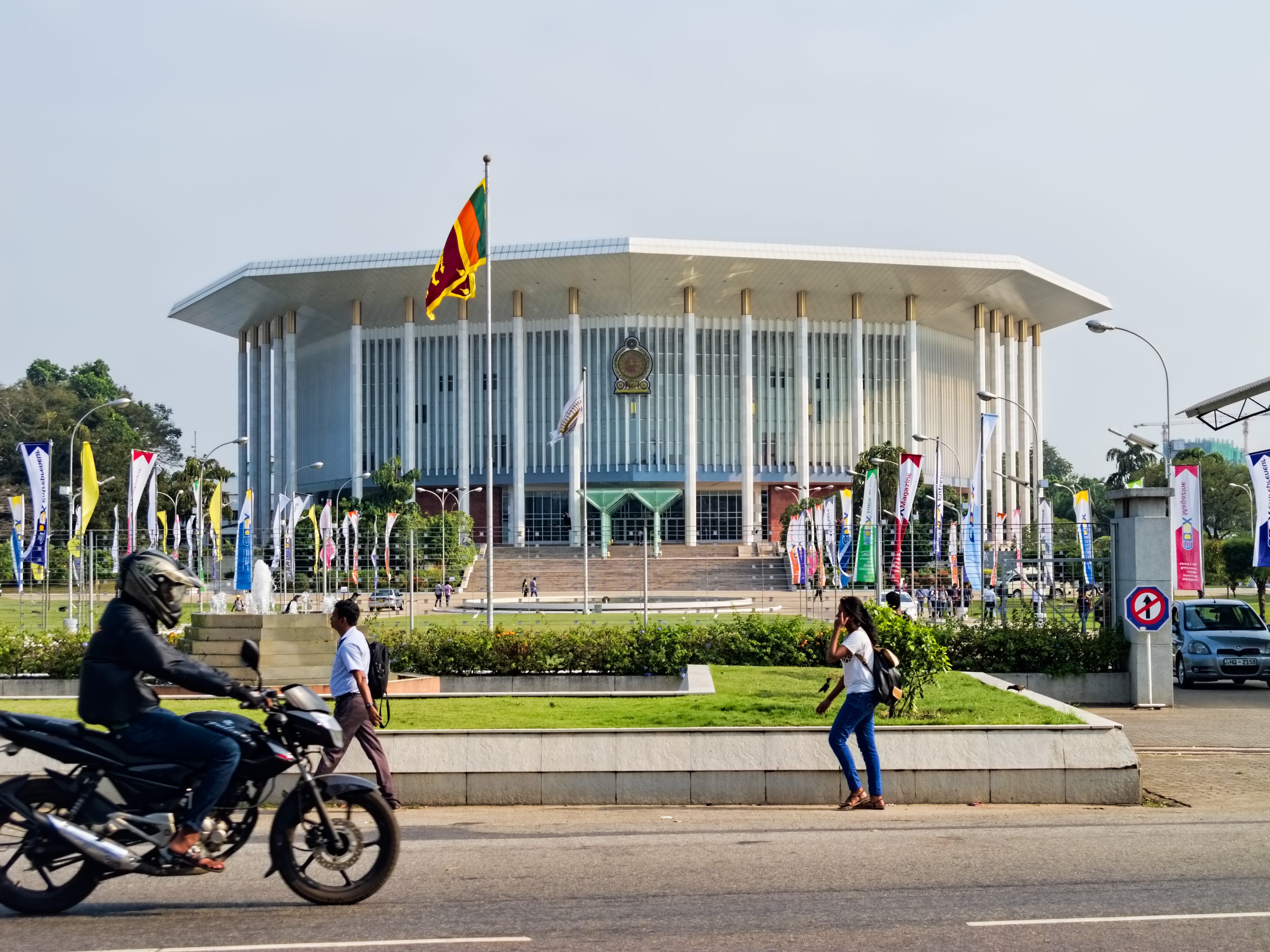 Bandaranaike Memorial International Conference Hall, built between 1970 and 1973, was a gift from the People’s Republic of China in memory of Solomon Ridgeway Dias Bandaranaike who was Prime Minister from 1956 to 1959. On Google Earth: Bandaranaike Memorial International Conference Hall 6°54'6.28"N, 79°52'22.03"E